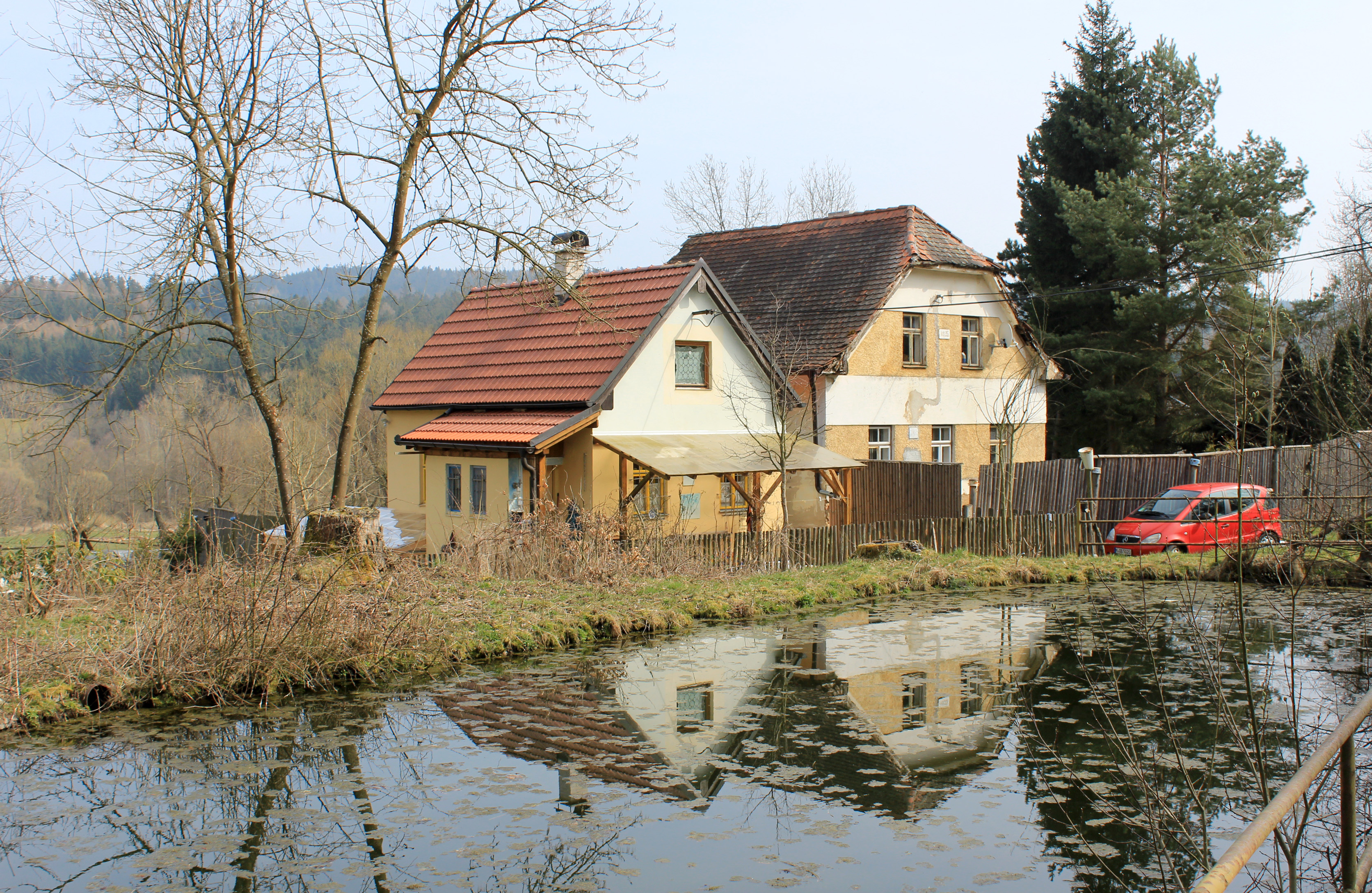 Small pond in Bystřice, part of Bělá nad Radbuzou, Czech Republic.